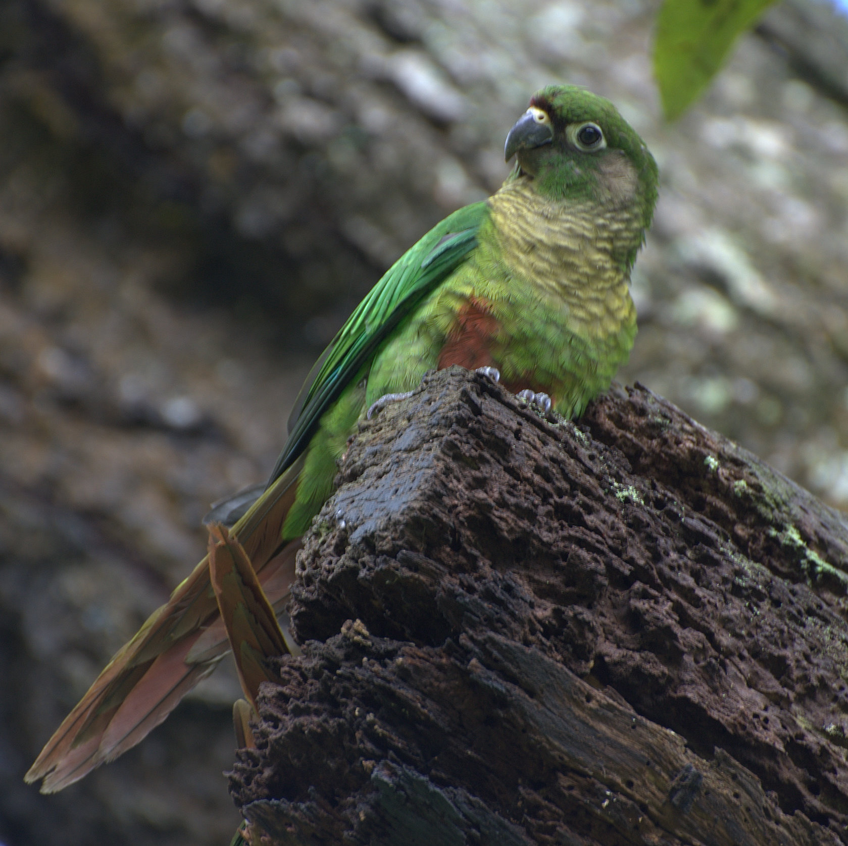 Maroon-bellied Conure (Pyrrhura frontalis) on a wooden stump. Jardim Botânico de São Paulo